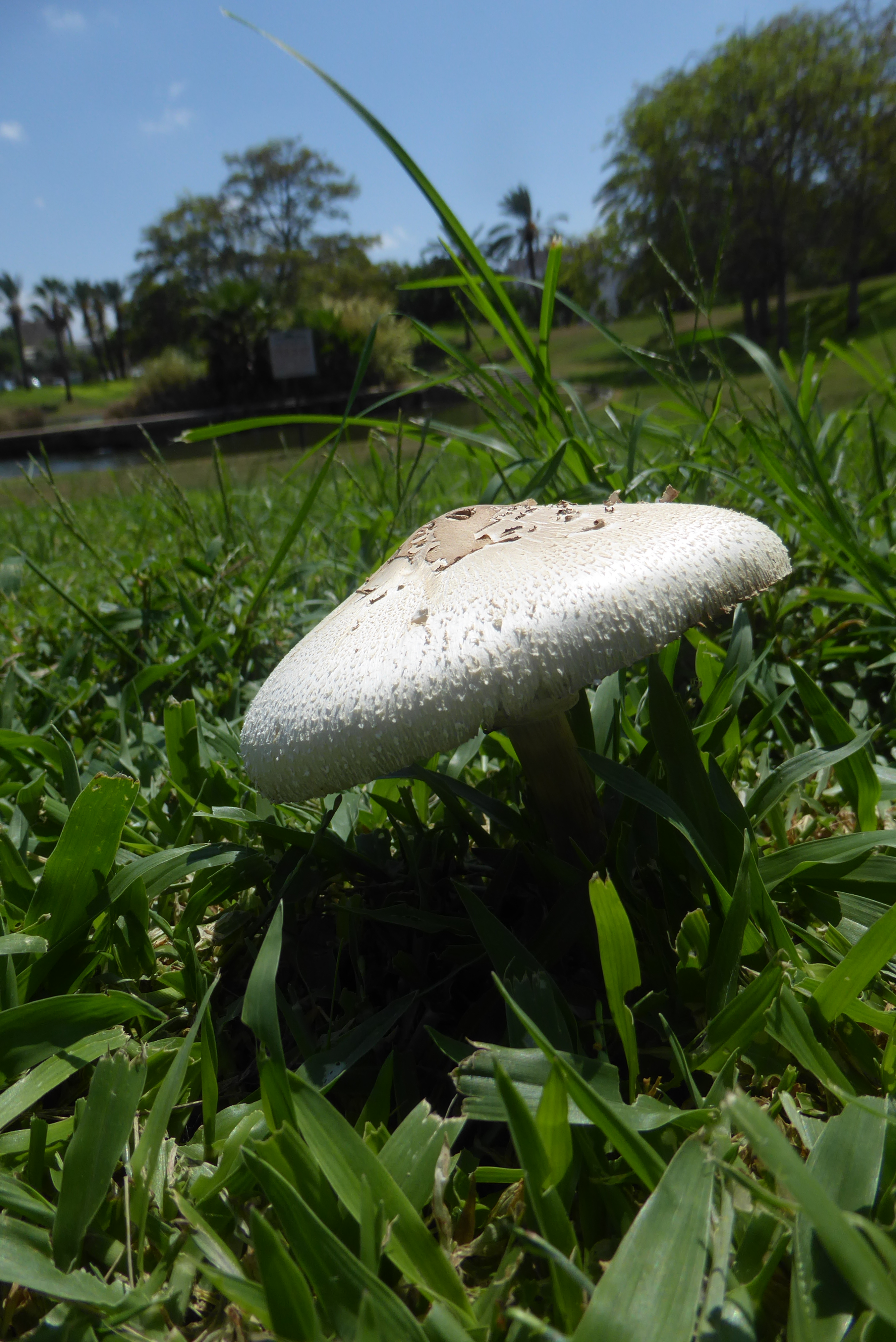 Edith Wolfson Park